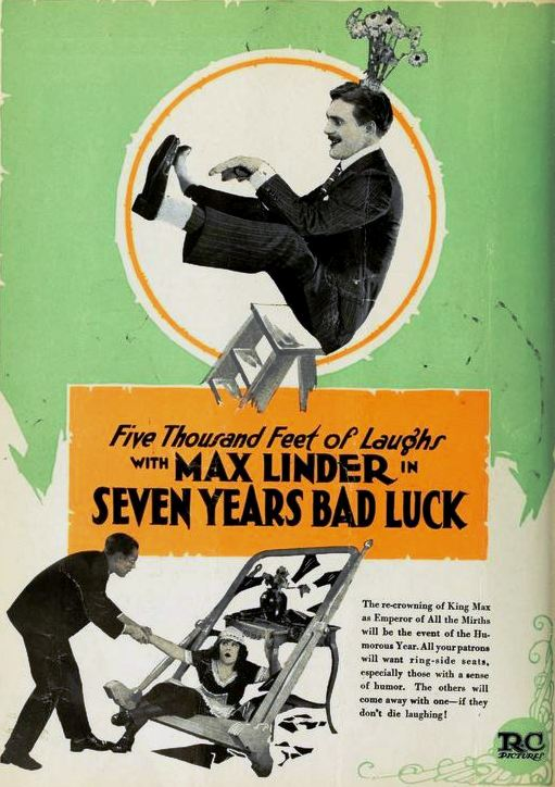 Ad for the American film Seven Years Bad Luck (1921) with Max Linder and Betty K. Peterson, facing page 13 of the February 20, 1921 Film Daily.